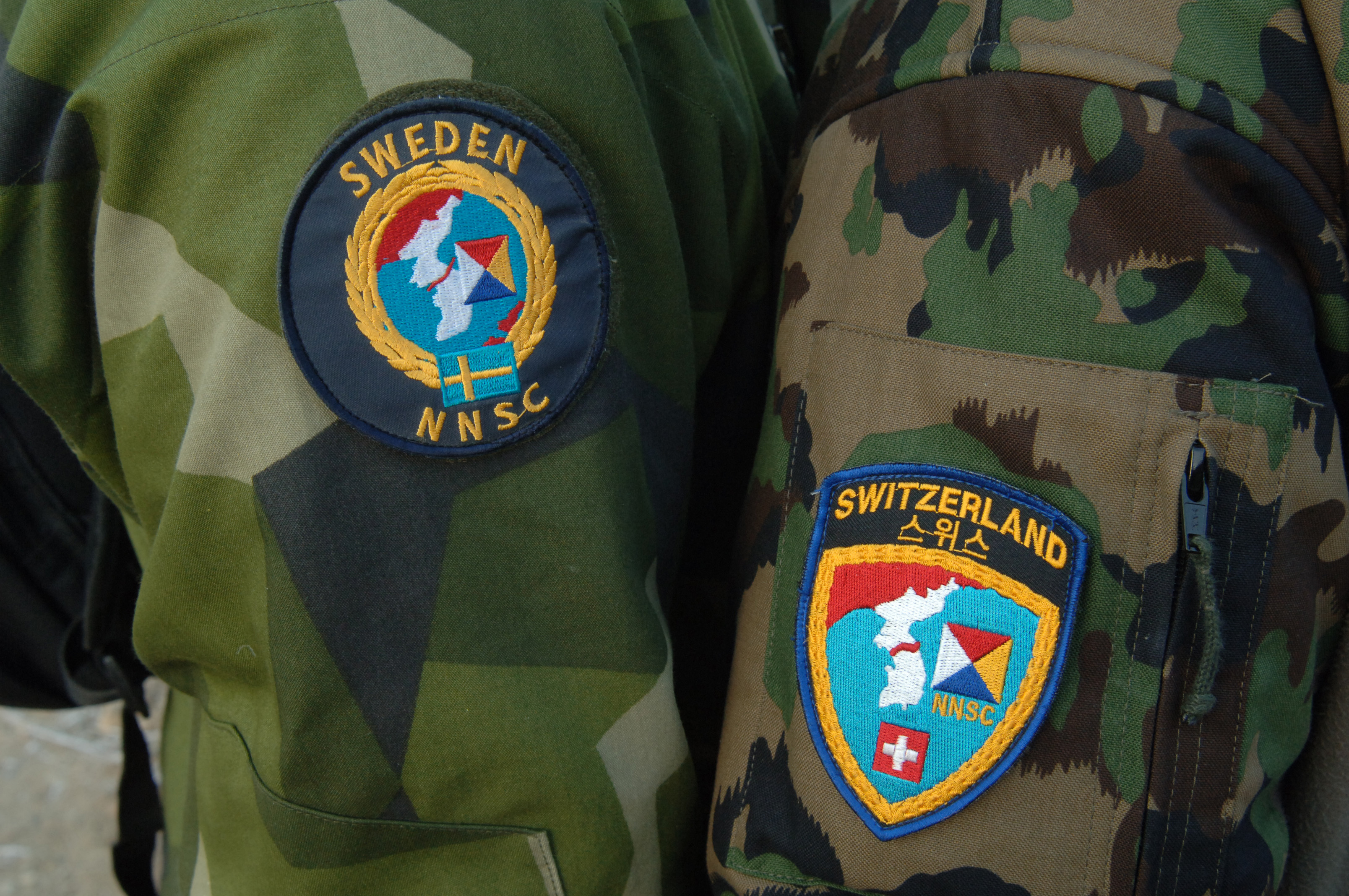 Uniform patches worn by Neutral Nations Supervisory Commission delegates from Sweden and Switzerland, as they oversee training scenarios between U.S. forces and Republic of Korea (ROK) forces during Exercise Key Resolve/Foal Eagle 2008 in Uijongbu, South Korea, March 5, 2008. (U.S. Navy photo by Mass Communication Specialist 1st Class Lou Rosales/Released VIRIN 080305-N-HB488-004)